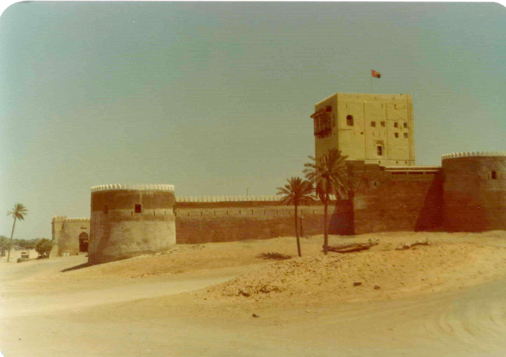 SOHAR - The Fort.